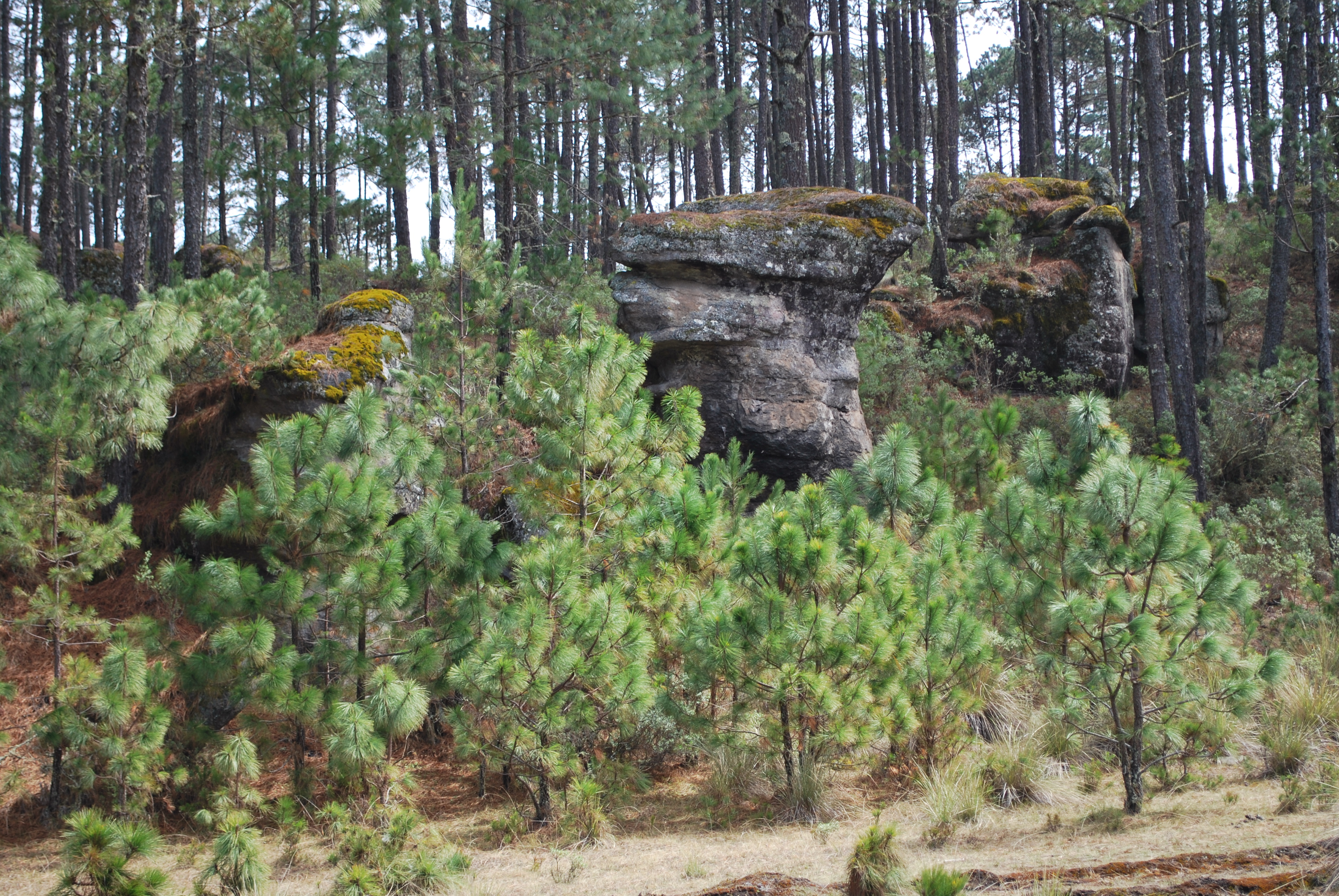 Rock formation at the Valle de las Piedras Encimadas park in Zacatlán, Puebla, Mexico, with young Pinus montezumae trees in the foreground and older trees behind.